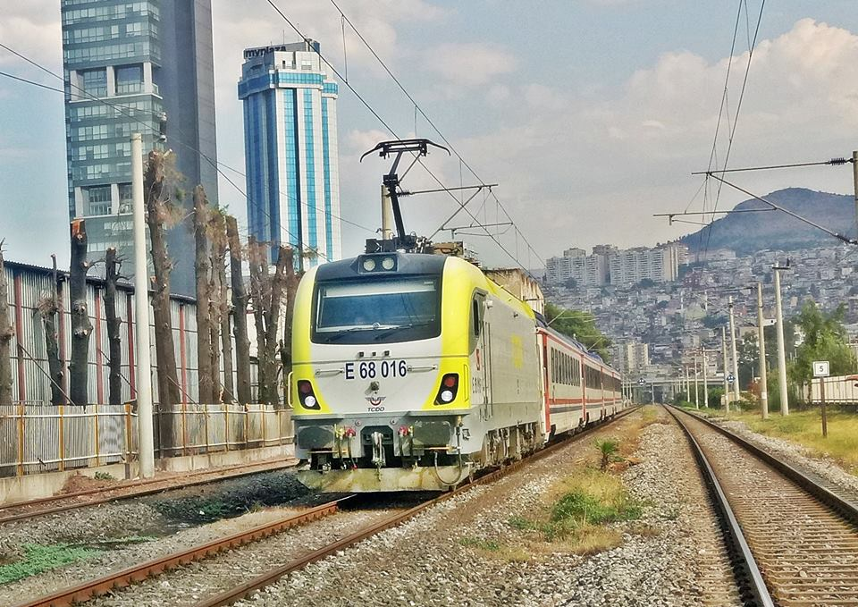 E68016 puling the northbound Karesi Express in Izmir.